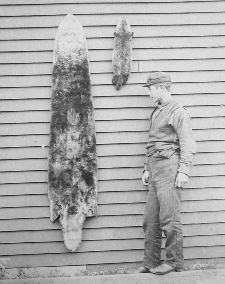 Skins of sea otters. Unalaska, Alaska. Gulf of Maine Cod Project, NOAA National Marine Sanctuaries; Courtesy of National Archives